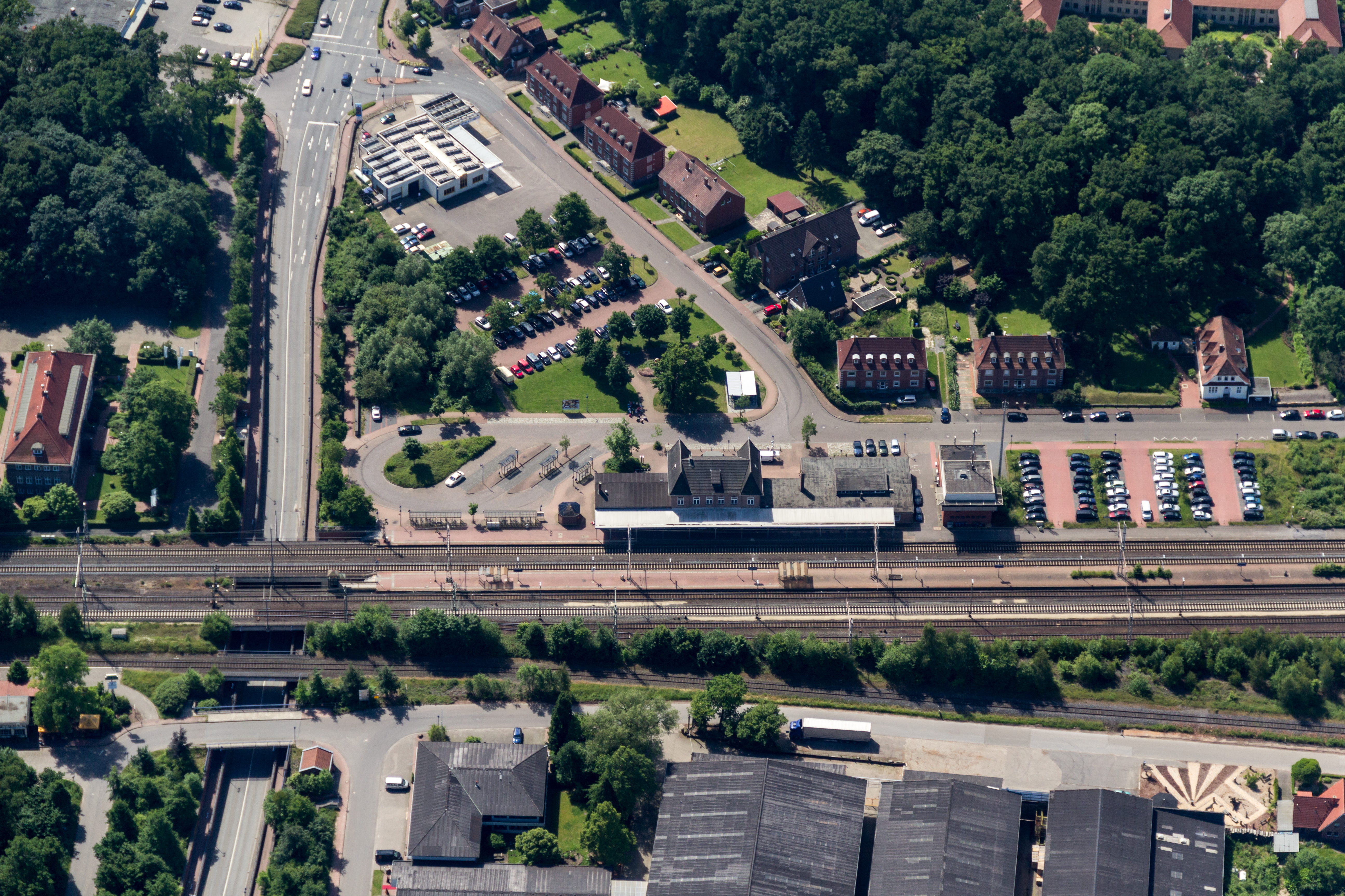 Railway station, Bad Bentheim, Lower Saxony, Germany